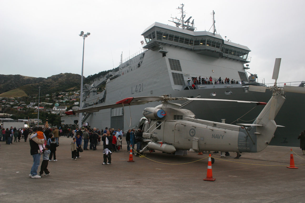 HMNZS Canterbury docked at Lyttelton during its inaugural visit to its (titular) home port. Public open day, 1 July 2007. In the foreground is an RNZN Seasprite helicopter.